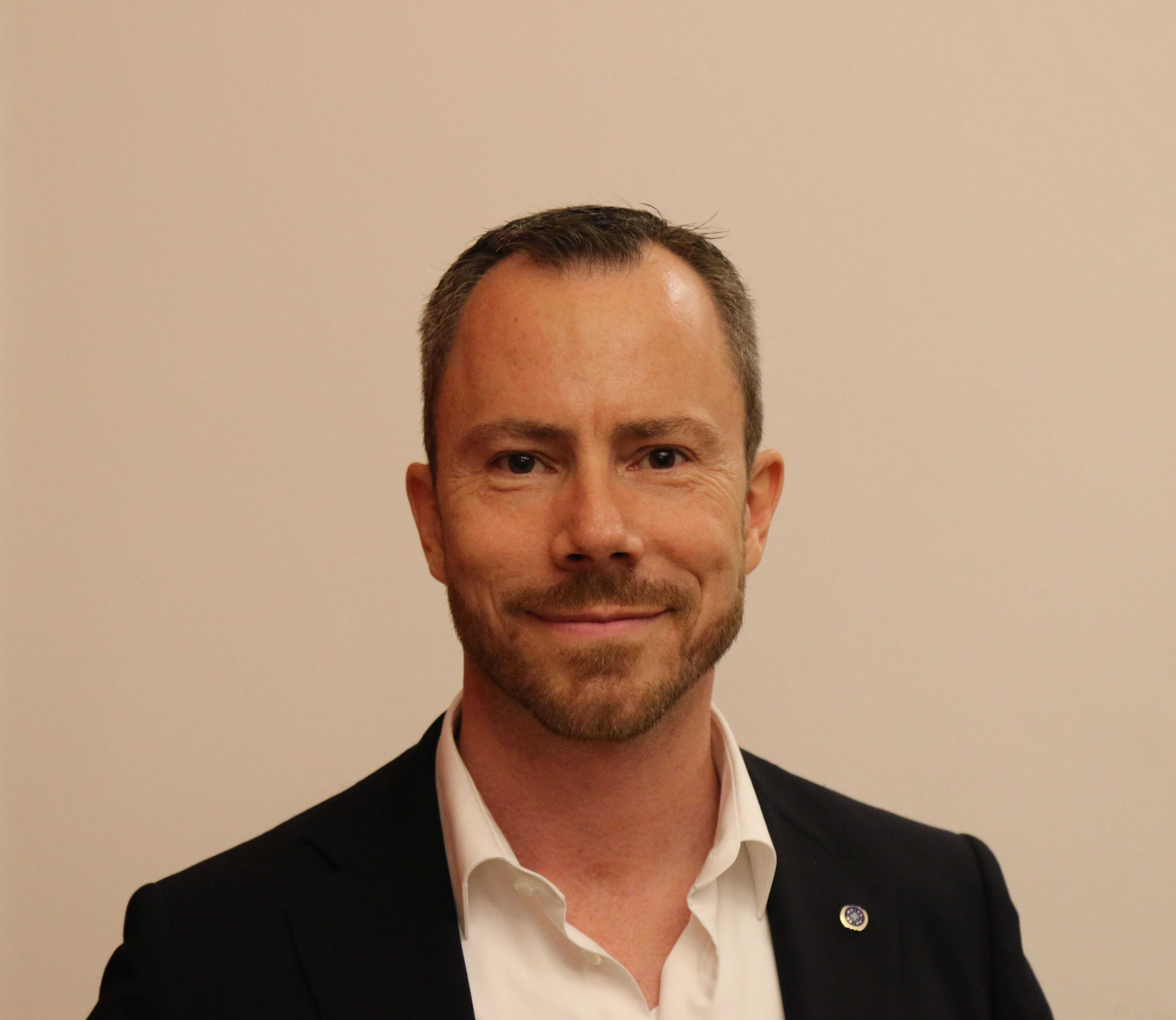 Picture of politician Jakob Ellemann-Jensen